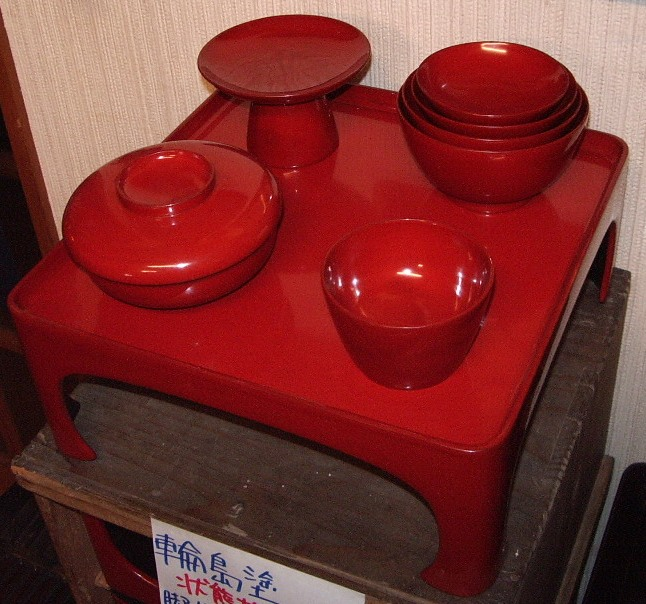 Wajimanuri (Traditional lacquerware of Wajima, Ishikawa, Japan)